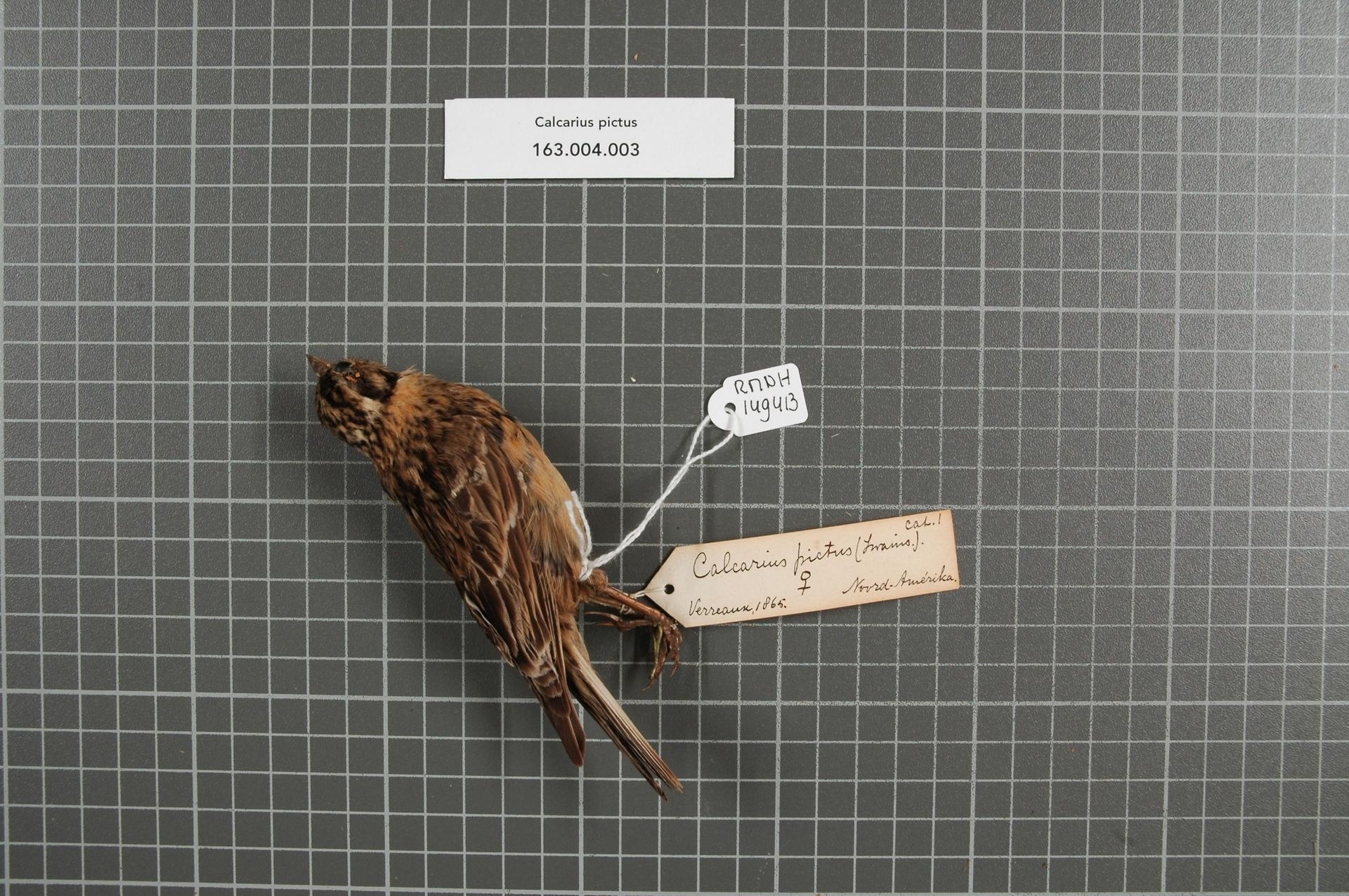 Prescarius pictus (Swainson, 1832)